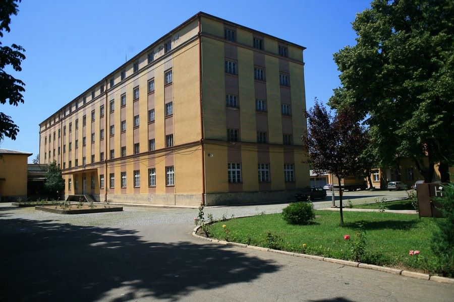 Factory Duvanska industrija Bujanovac Srpski (latinica): Fabrika Duvaske industrije Bujanovac